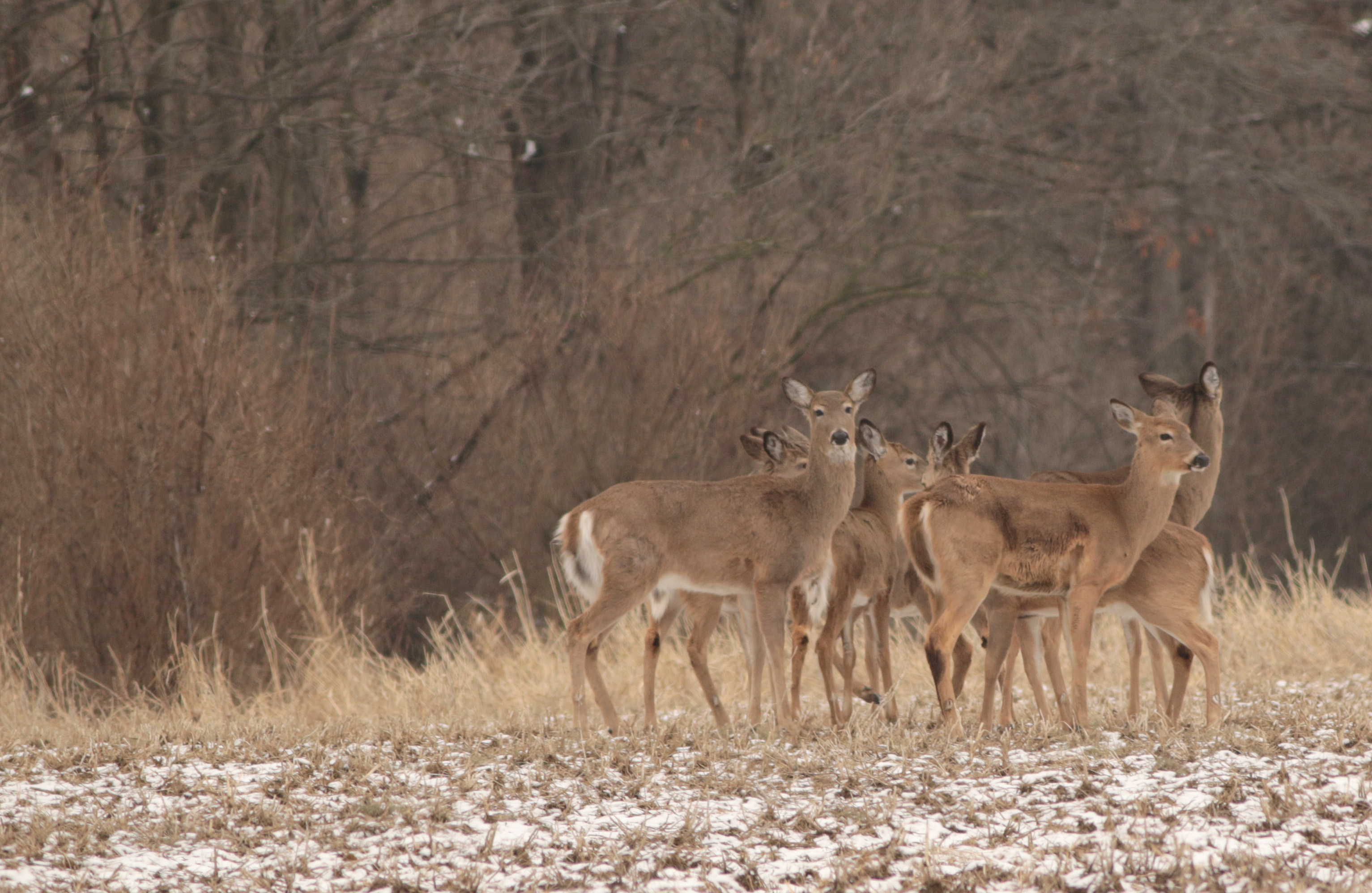 White-tailed deer huddle together in order to shelter each other from strong winds and extreme temperatures.